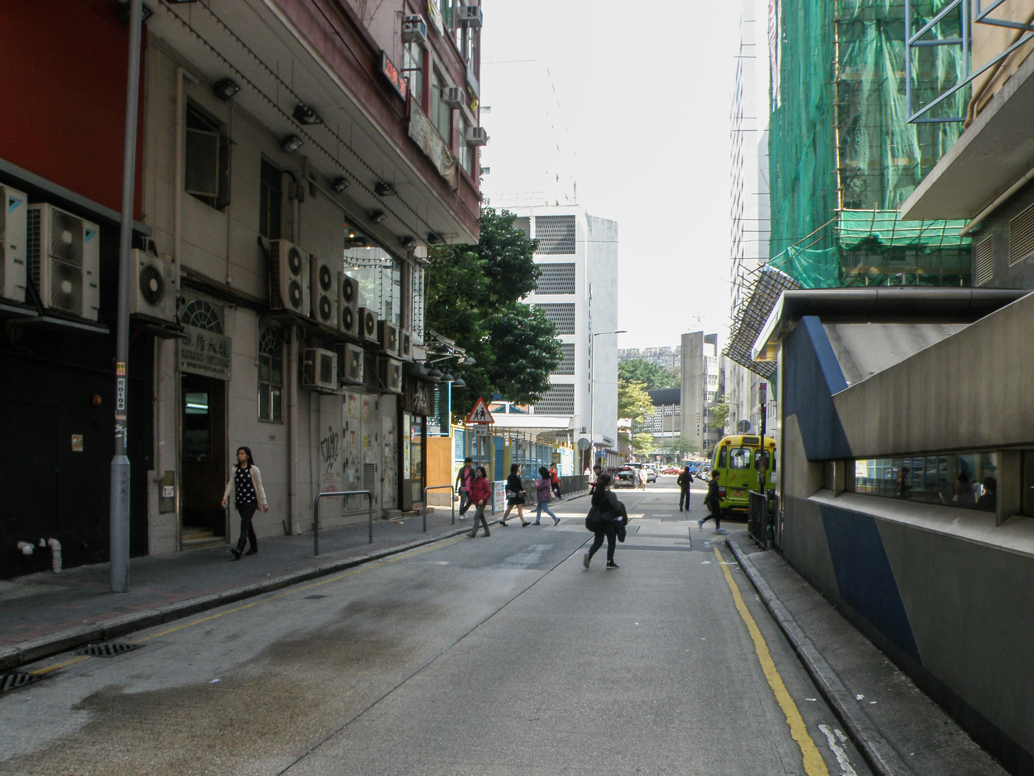 Pitt Street in Yau Ma Tei, Hong Kong.